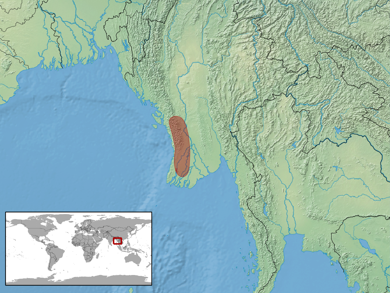 geographic distribution of Cyrtodactylus ayeyarwadyensis (Native: Myanmar)